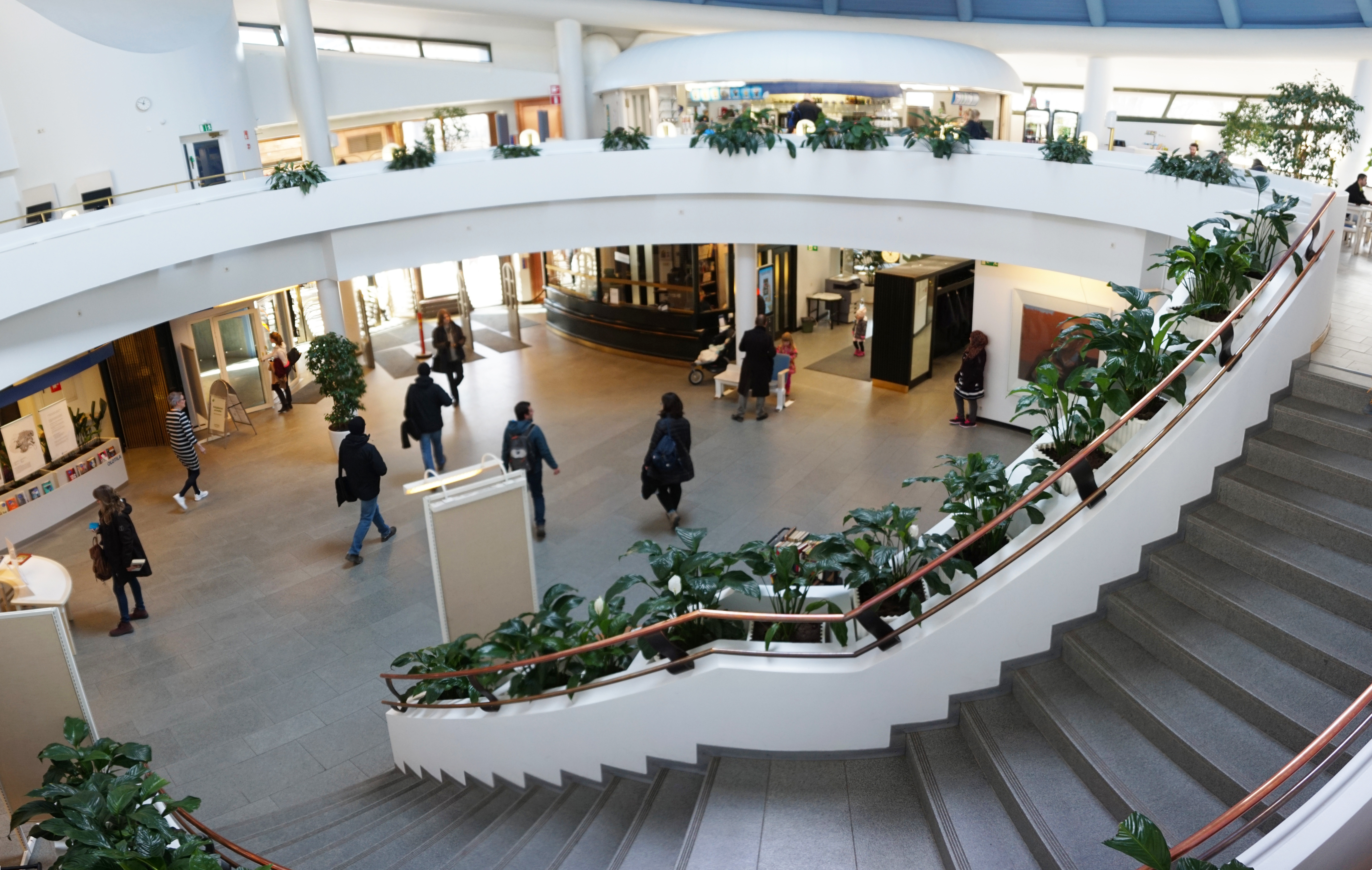 Tampere City Library.This photograph was taken with a Sony ILCE-5000